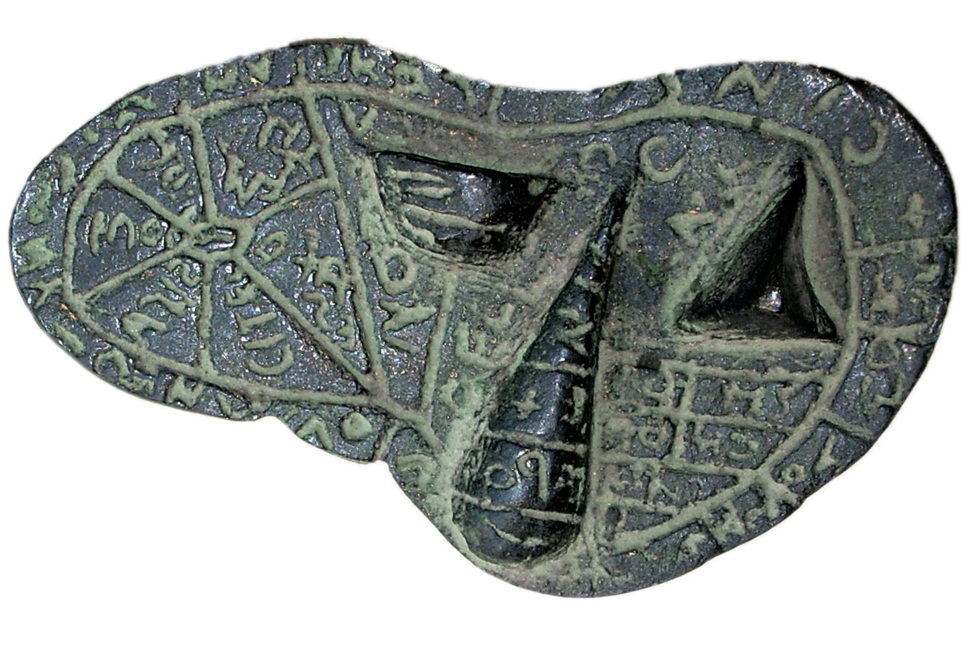 Replica of the Liver of Piacenza, Mantik.